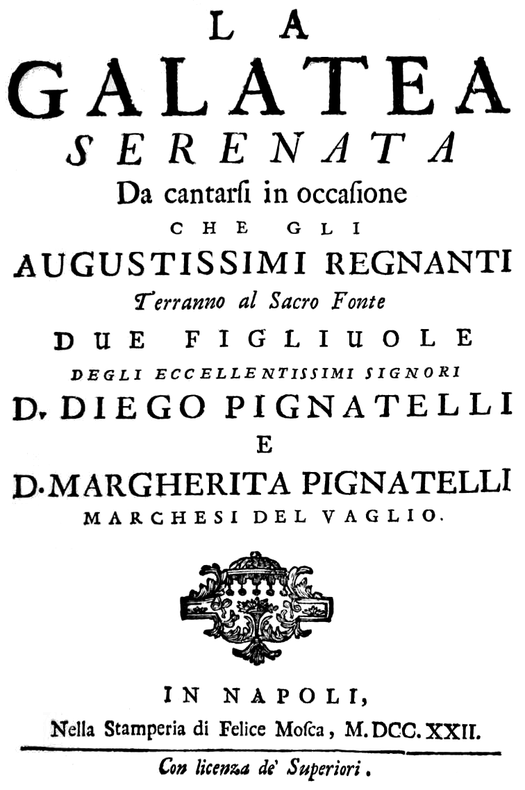 Gioseffo Comito - La Galatea - titlepage of the libretto - Naples 1722